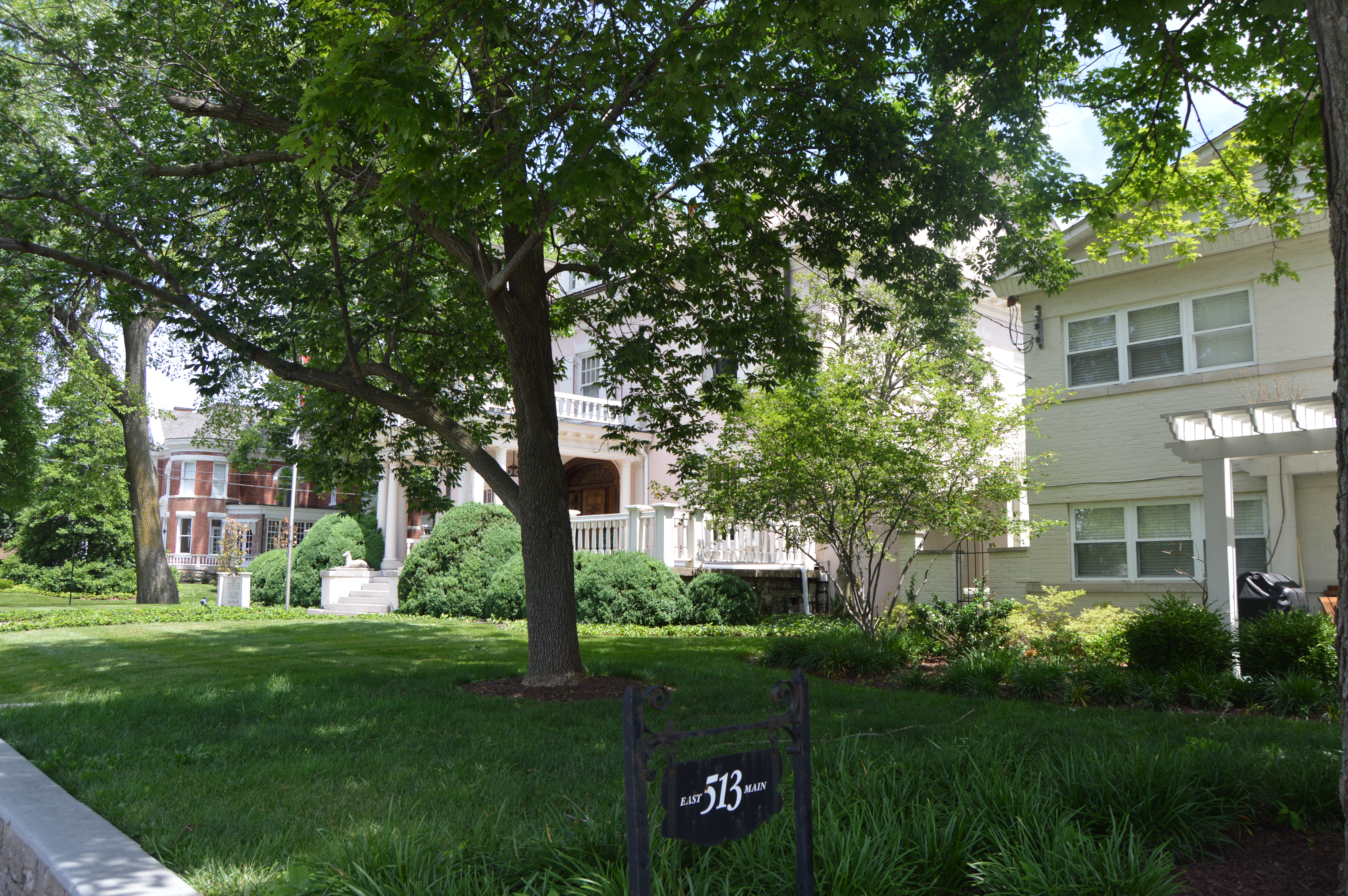 Houses on the northern side of the 500 block of E. Main Street (U.S. Routes 25/421) in Lexington, Kentucky, United States. This block is part of the Bell Court Neighborhood Historic District, a historic district that is listed on the National Register of Historic Places.